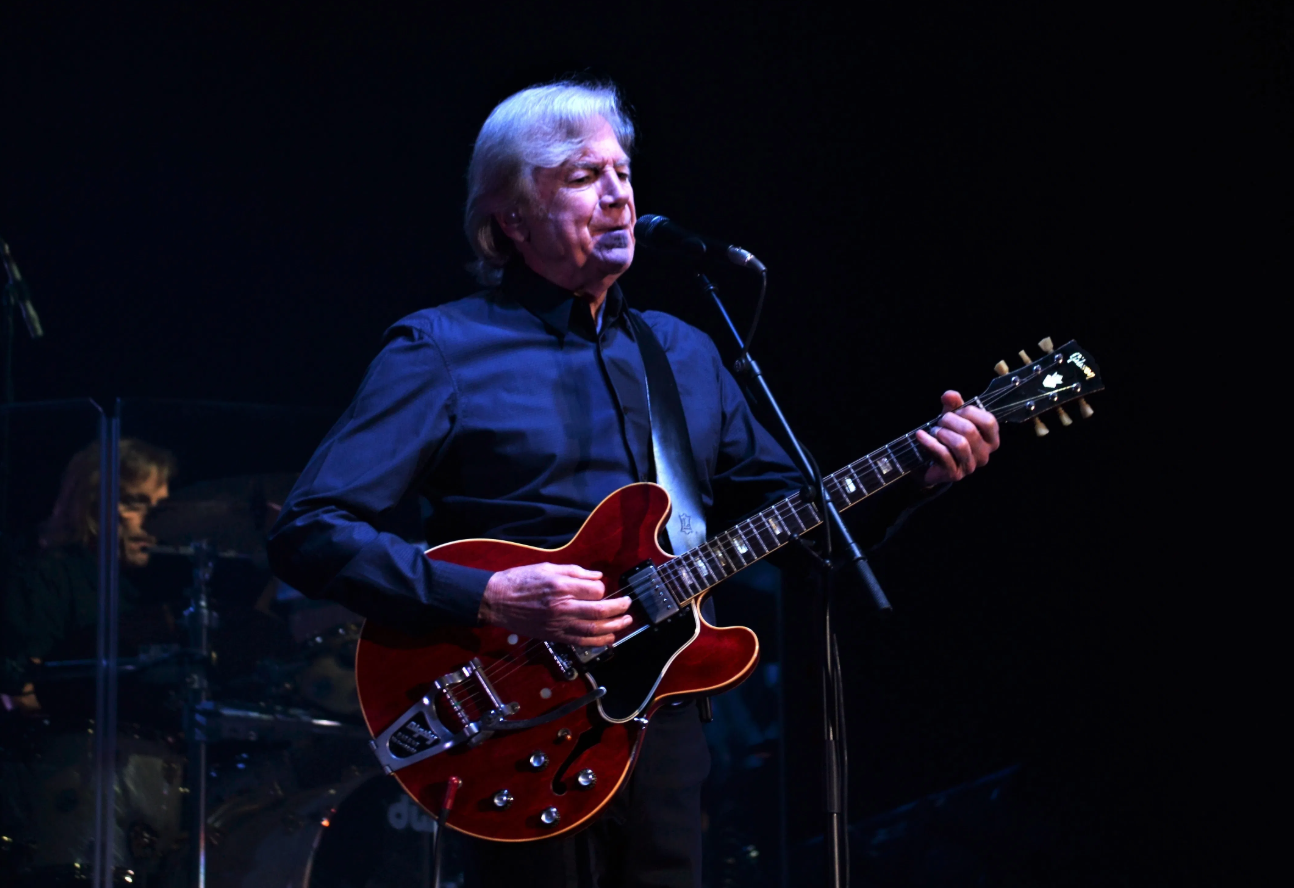 Hayward performing in 2018